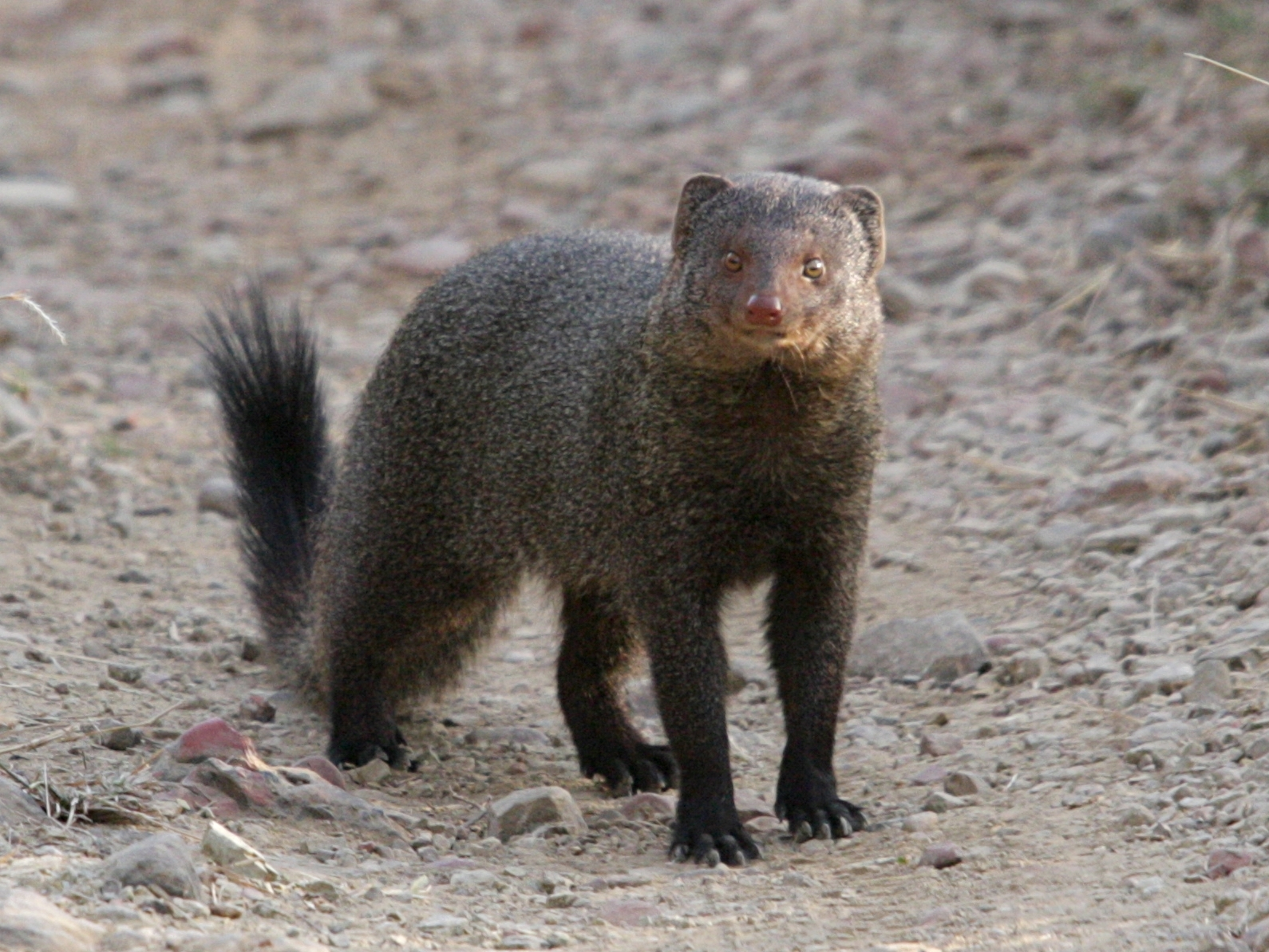 Ruddy Mongoose (Herpestes smithii), Panna Tiger Reserve, India